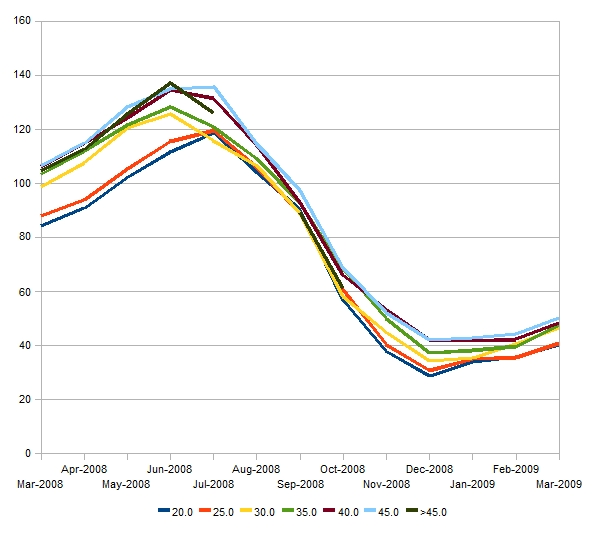 Chart of oil prices depending on their API density, 2008-2009